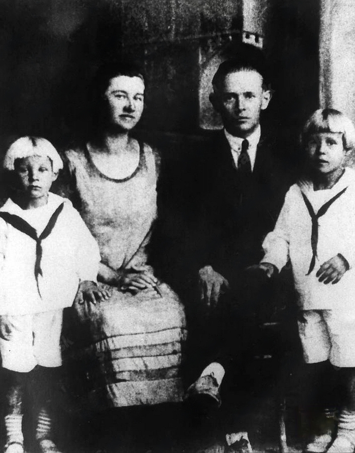 Alexander Dubcek (on left) in Bishkek. 1925